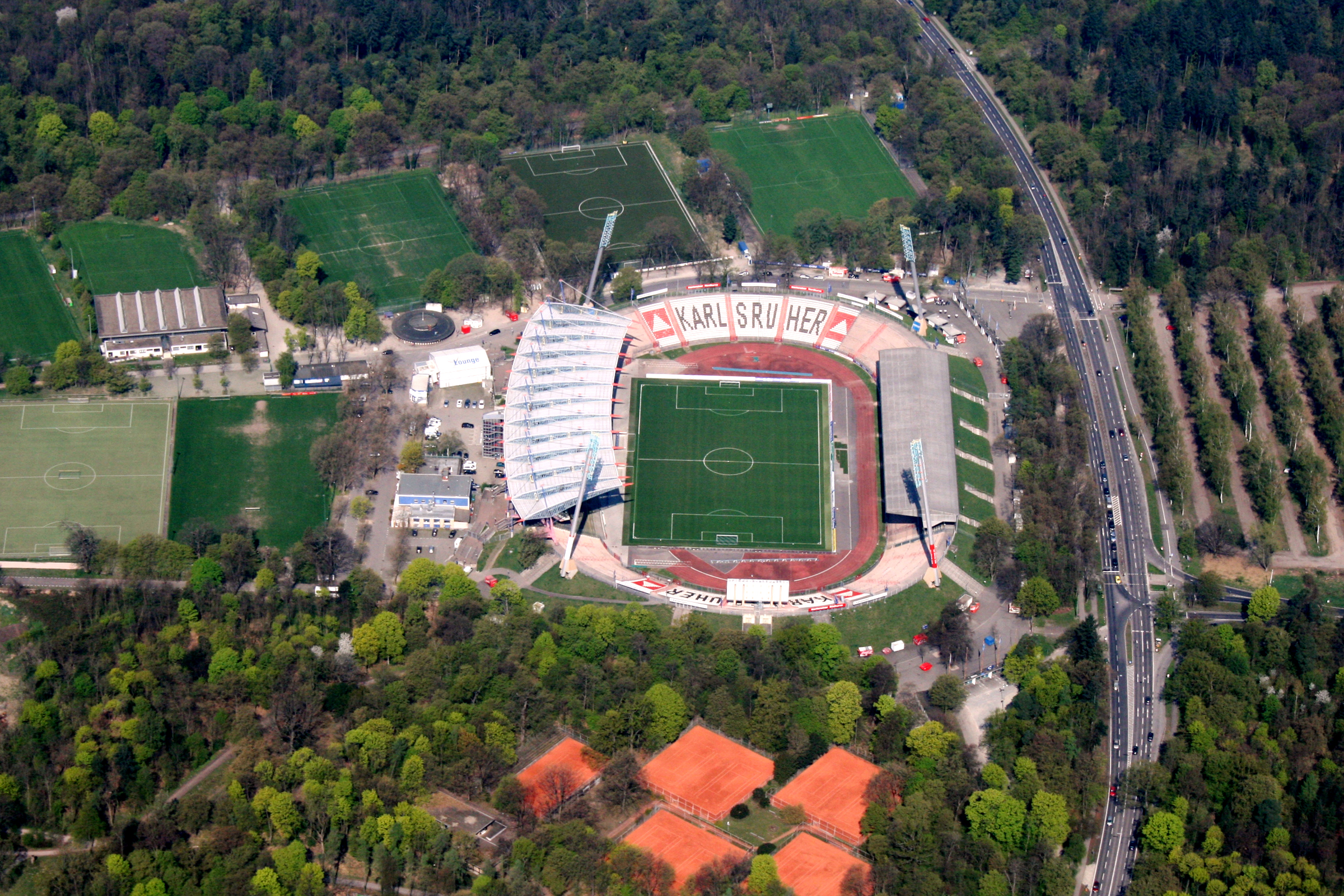 The Wildparkstadion (home of the Karlsruher SC)